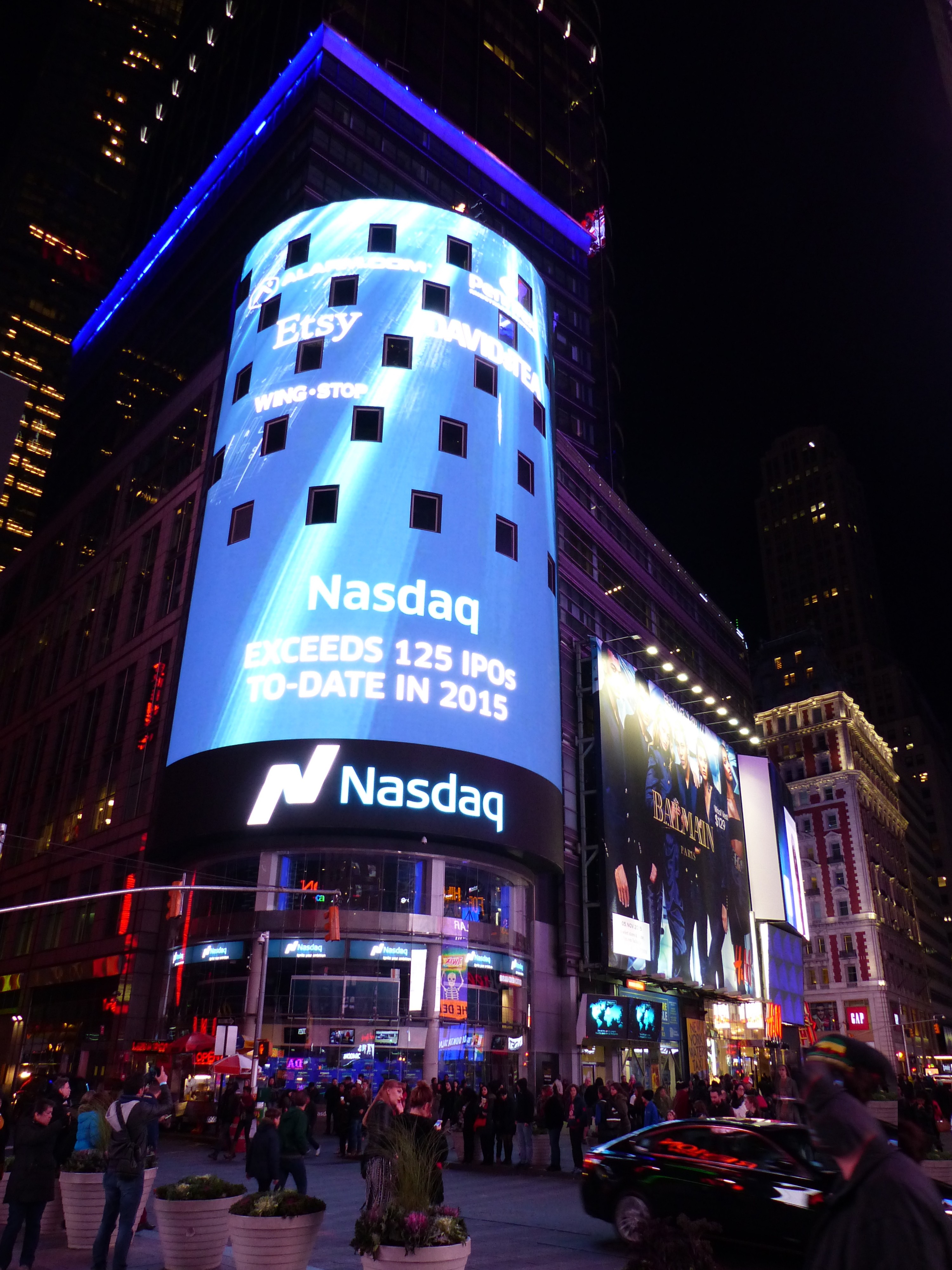 NYC - Midtown Manhattan – Times Square – Broadway by night